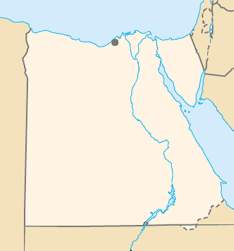 Location of Alexandria in Egypt